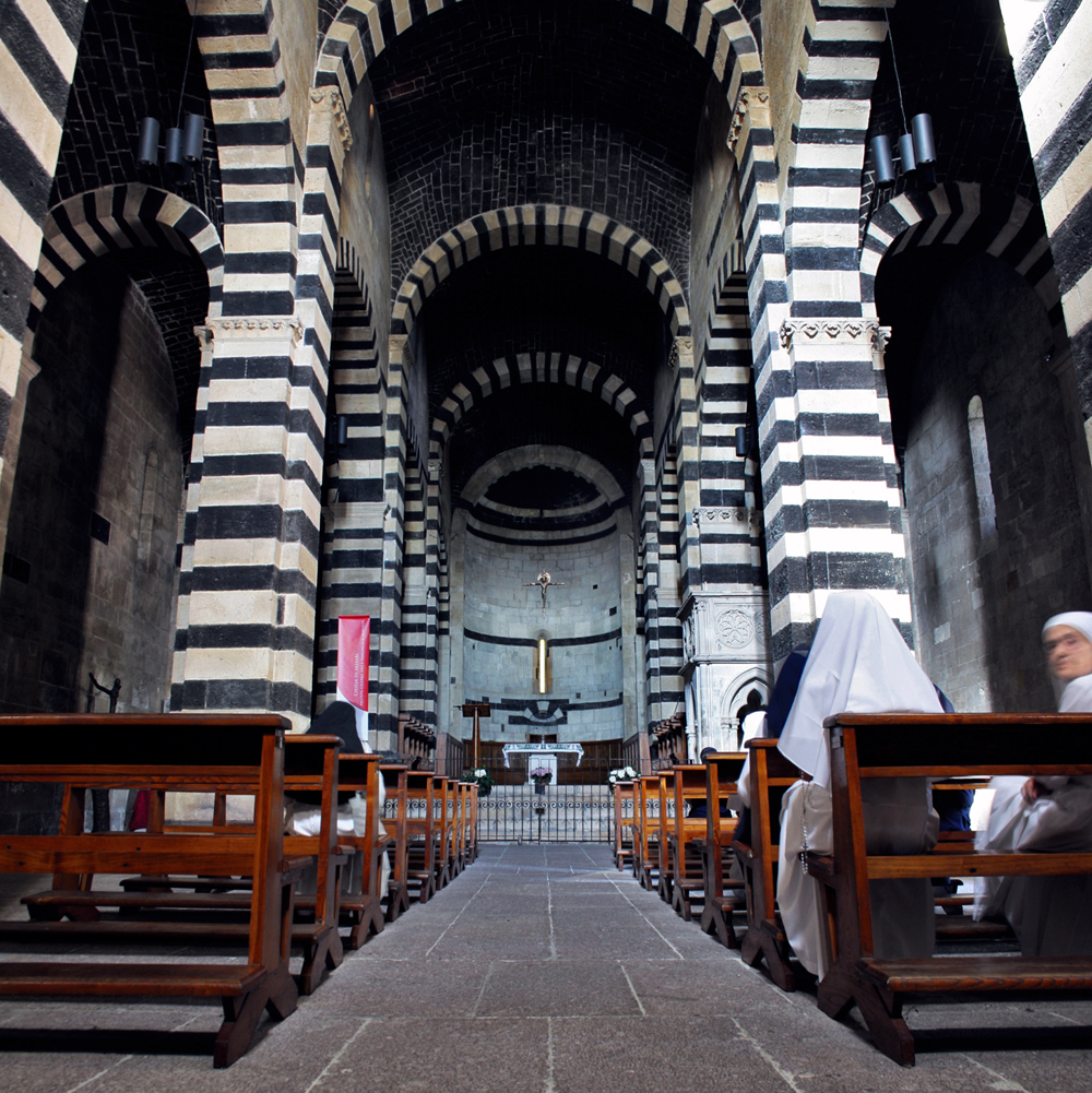 San Pietro di Sorres is a cathedral church and Benedictine monastery in Borutta, a village in the province of Sassari, northern Sardinia, Italy. Built in Pisan Romanesque style during the 12th-13th centuries, it was the seat of the now disappeared diocese of Sorres until 1505. Since 1950 the church and the annexed monastery house a community of Benedictine monks. The church is located at the top of a volcanic hill in the so-called Meilogu region.